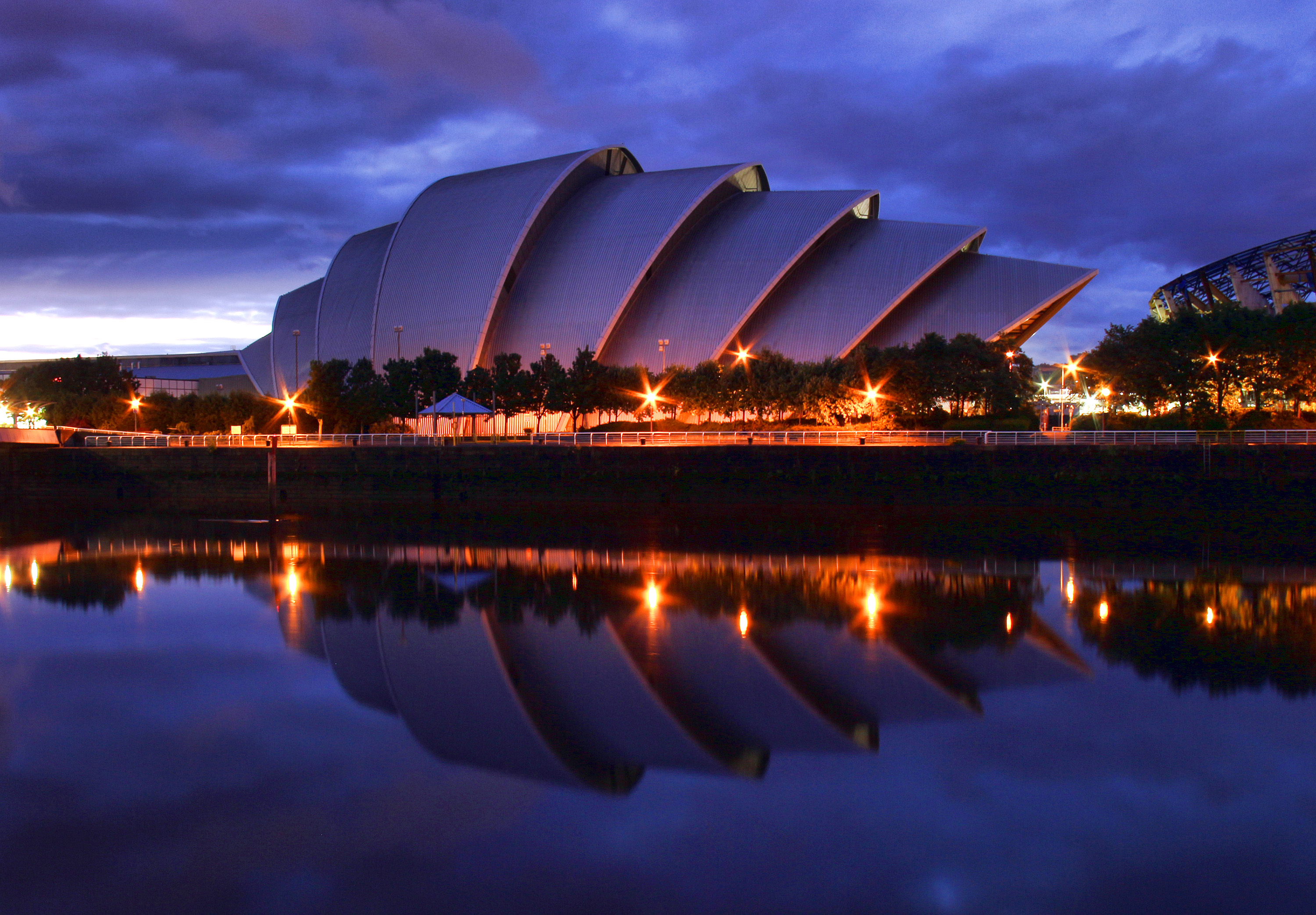 The Clyde Auditorium